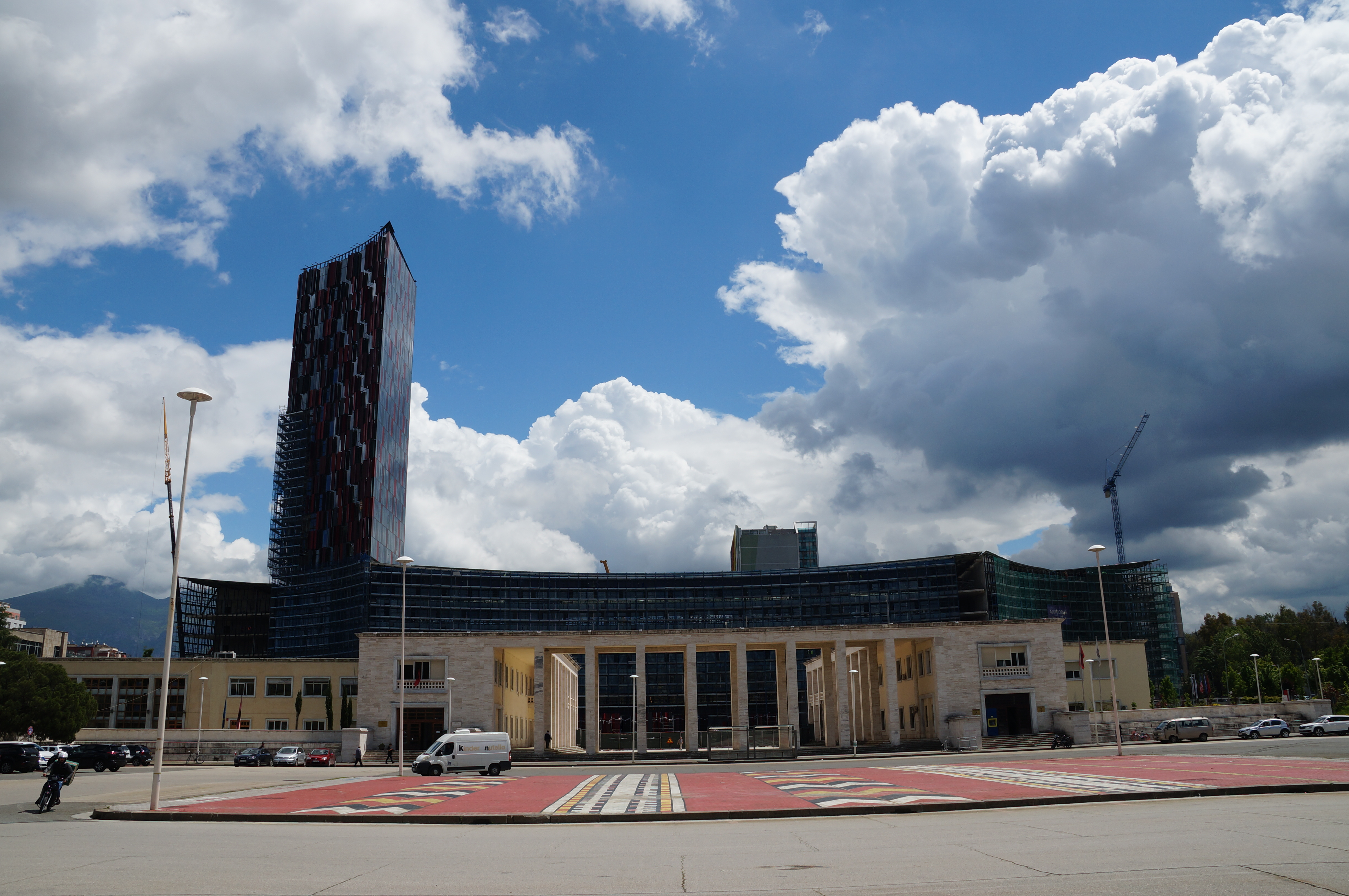 Mother Teresa Square in Tirana and the new stadium in the background.